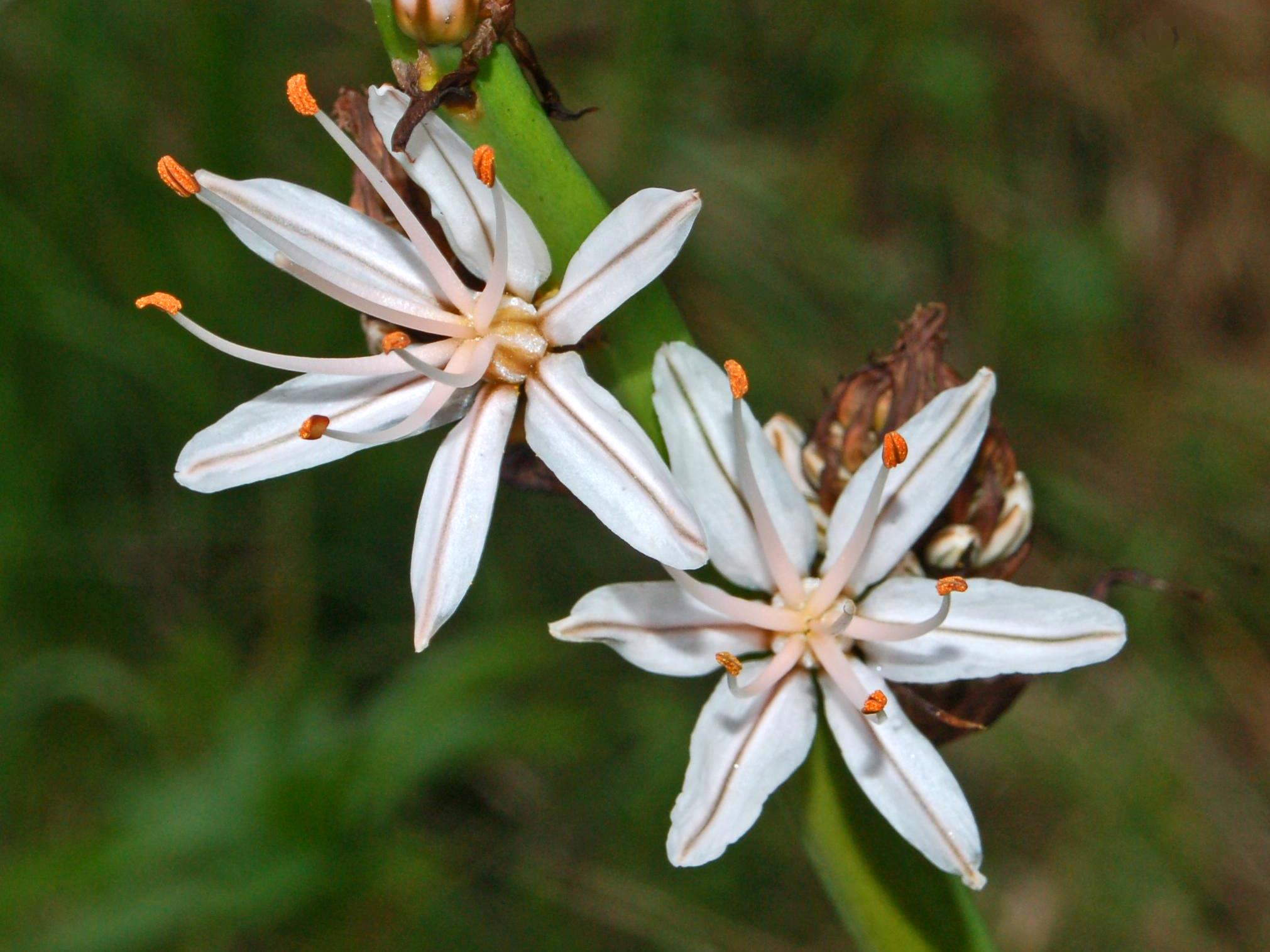 Asphodelus macrocarpus - Creto, Genova, Italy